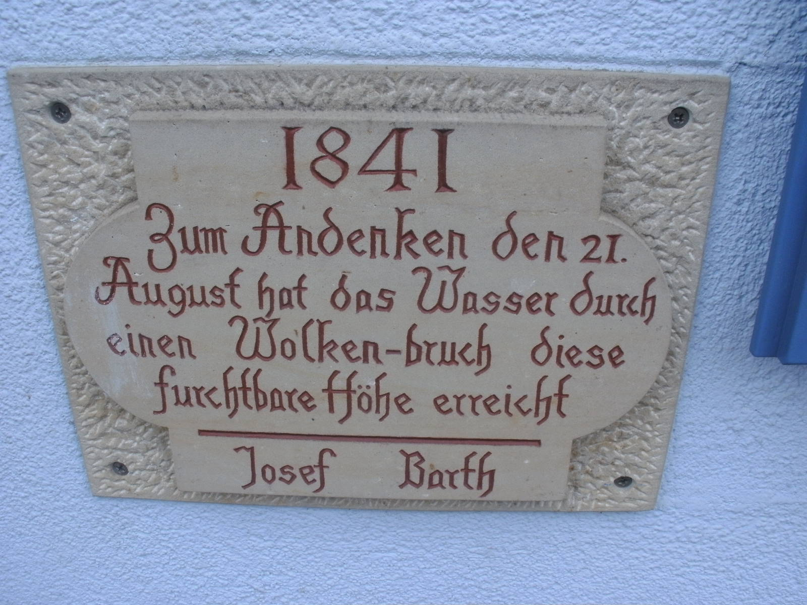 Flood level sign in Waldstetten, Baden-Württemberg, Germany in memory of the flood of 1841. Inscription: „1841 / in memory of the 21st of August the water reached this terrible high after a cloudburst / Josef Barth“